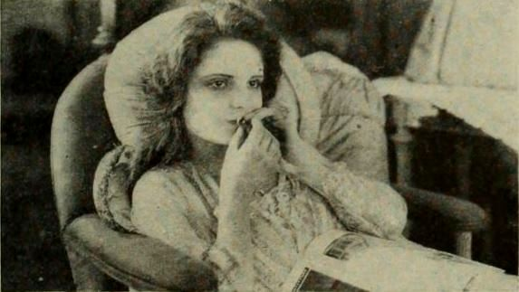 Still from the American film Who Are My Parents? (1922) (also known as A Little Child Shall Lead Them) with Peggy Shaw, on page 67 of the November 1922 Photoplay.